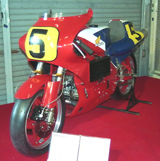 Honda NR500 (1979)